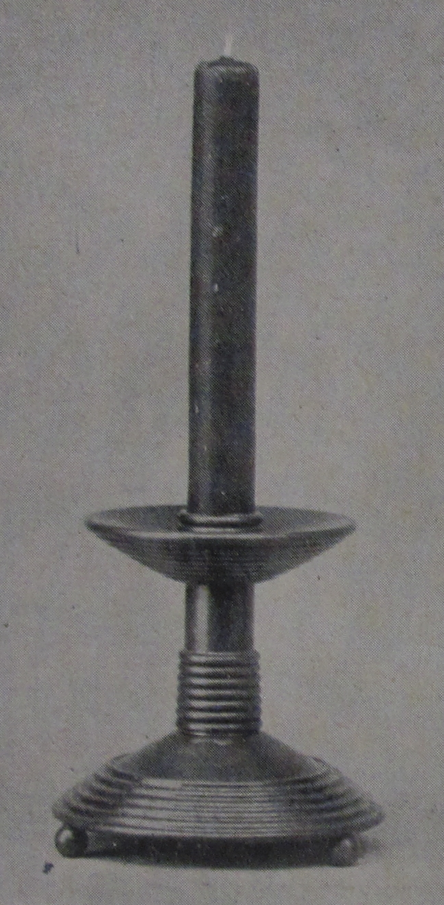 Candeler d'Alfons Serrahima